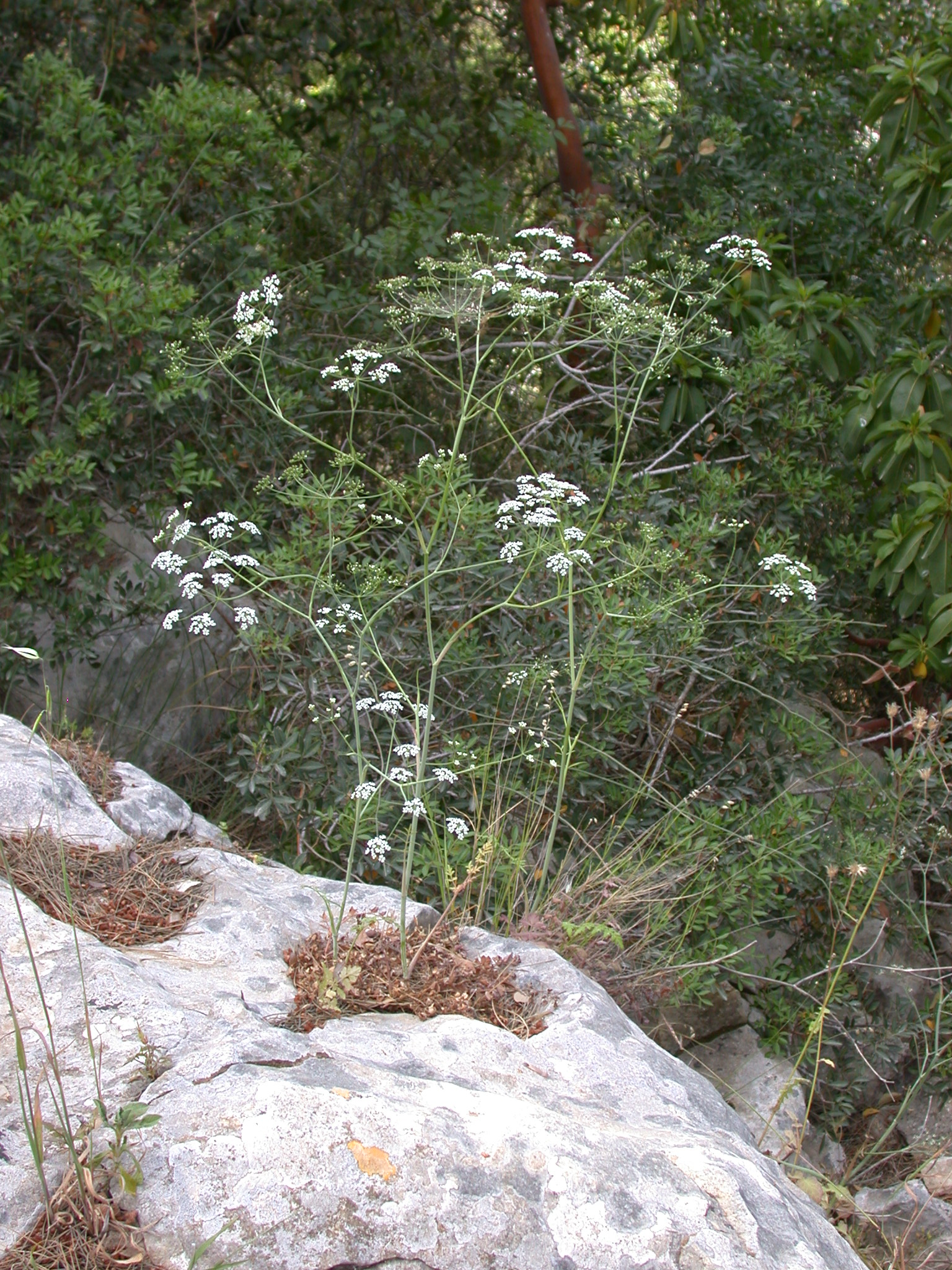 Scaligeria napiformis (Willd. ex Spreng.) Grande (סקליגריה כרתית), Mount Carmel, Israel, April 2008. Other names: Scaligeria cretica (Urb.) Boiss.